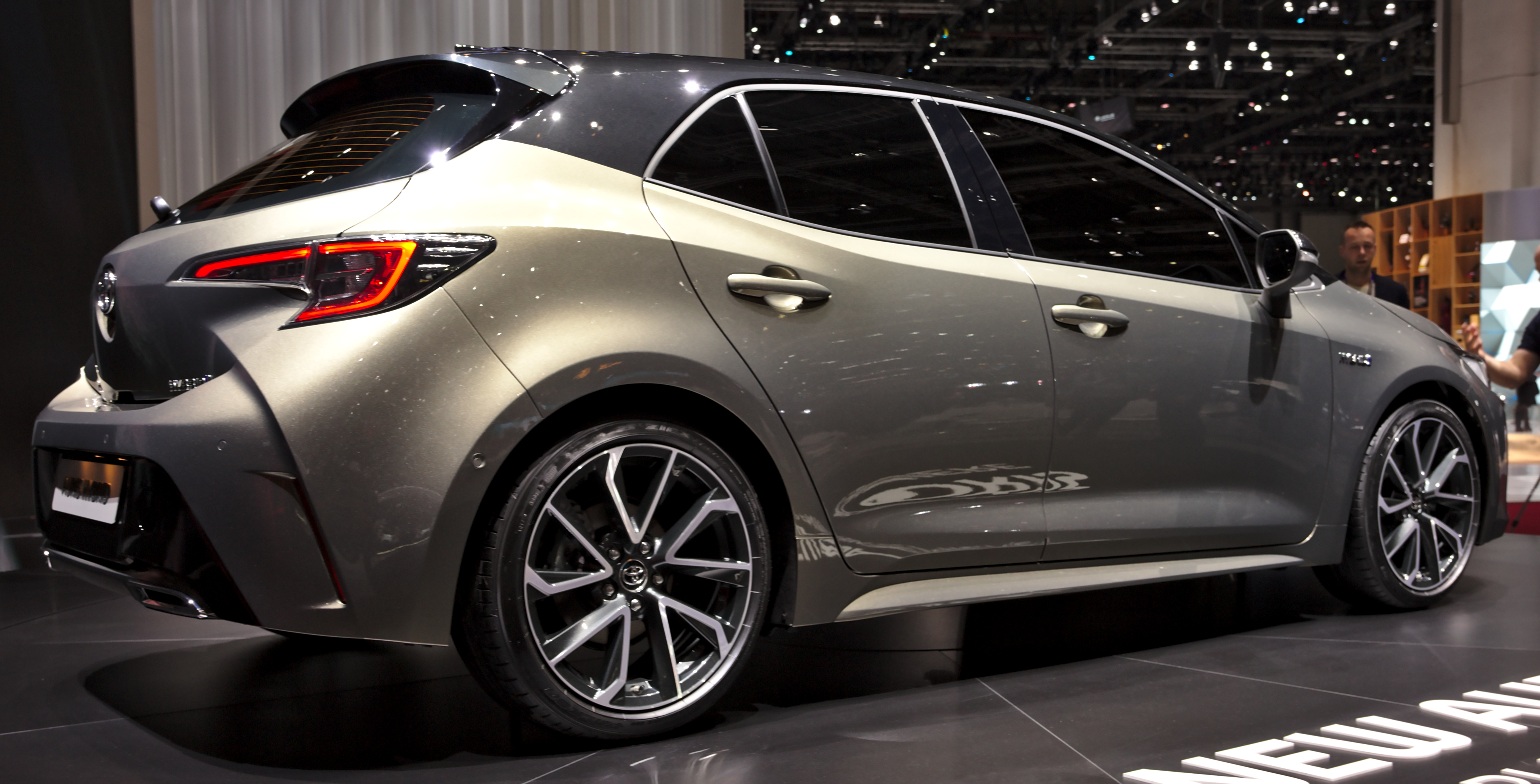 Toyota Auris at Geneva Motorshow 2018